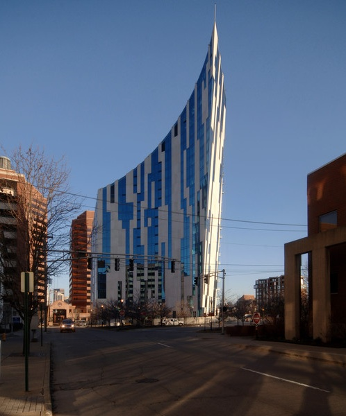 A residential tower, the Ascent at Roebling's Bridge in Covington, Kentucky, United States, was designed by Studio Daniel Libeskind. It was commissioned in 2004 and was completed in 2008.